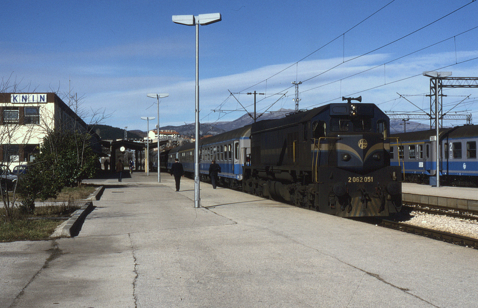 2 062.051 stops at Knin on the Zagreb to Split line on 14 February 1997 with train B721, 07:00 Zagreb Gl.kol. to Split. Note the overhead wires. Knin was the limit of electrification on the main route through to Split via Novi Grad and Bihać in Bosnia. The alternative route from Zagreb through to Knin was only ever electrified as far as Oštarije with the wires continuing to Rijeka. With the outbreak of war in Croatia and Bosnia during 1990s, railway services were suspended on both routes to through to Split. Upon reinstatement, services through to Split, took the Oštarije route thus changing to diesel traction there. Although the electrified route via Bosnia south of Martin Brod has seen some freight traffic since the war ended, it has now been declared closed due to poor track condition. With the overhead wires being in poor condition too, electric traction was never used beyond Novi Grad since the war ended hence have been unused for over 20 years now here at Knin.